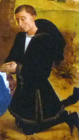 Rogier van der Weyden: Bevelin Altar. Detail: Donor. Staatliche Museen zu Berlin